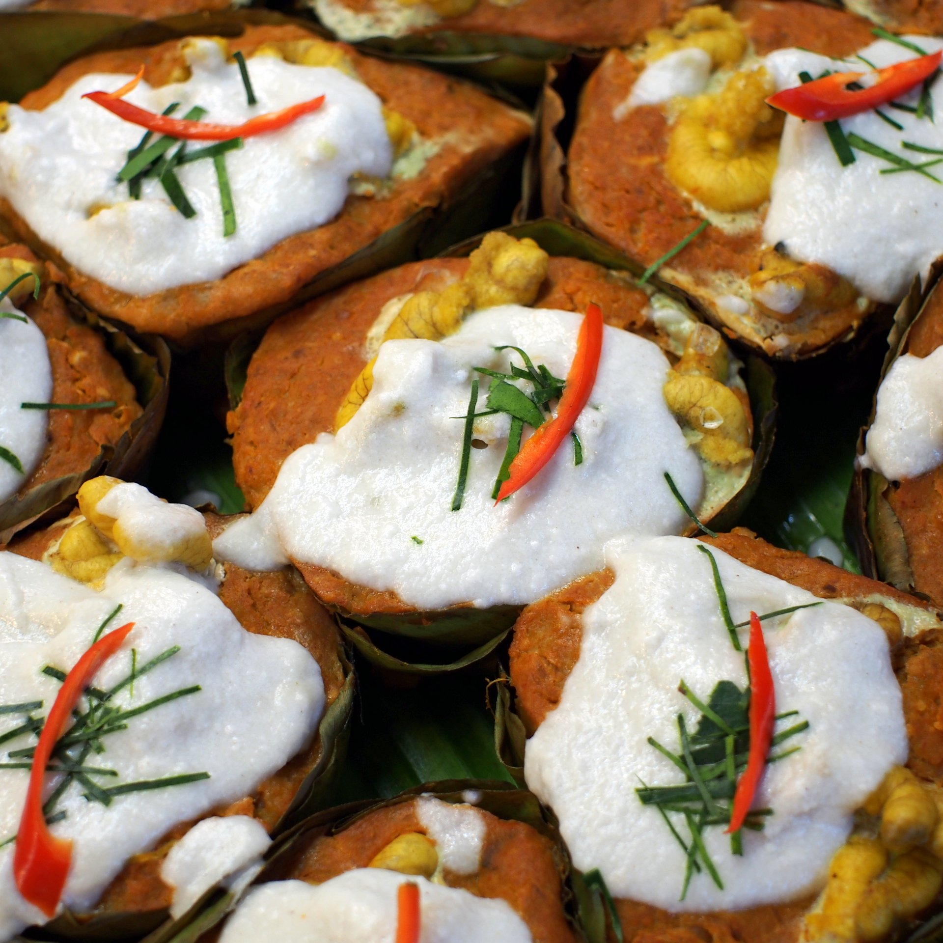 Ho mok pla (Thai script: ห่อหมกปลา) is a fish curry "soufflé" that is steamed inside a cup made from banana leaf. The yellow-coloured ingredient is fish roe. The photo was made at one of the stalls inside Thanin Market in Chiang Mai.